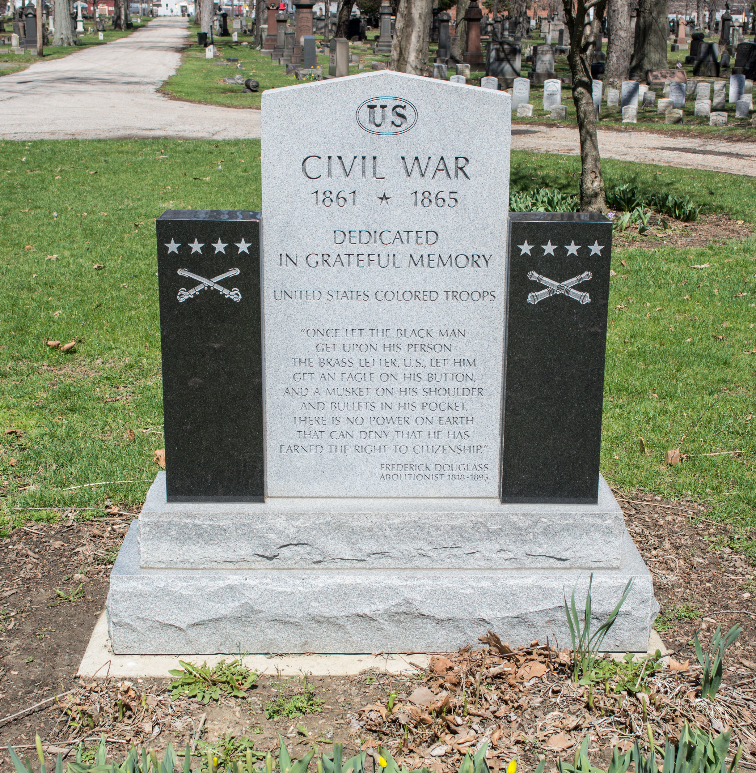 Front view of the United States Colored Troops Memorial at Woodland Cemetery in Cleveland, Ohio, in the United States. The cemetery is a public, secular cemetery established in 1853. The cemetery was added to the National Register of Historic Places in 1986, and is both an Ohio and Cleveland historic landmark. A number of African American veterans of the American Civil War, who served in what was then known as the U.S. Colored Troops, are buried at Woodland. The memorial was designed and paid for by the Woodland Cemetery Foundation. The Johns-Carabelli Company, a Cleveland-area funerary monument maker, manufactured the memorial, which was dedicated in June 2012. The memorial was heavy damaged after being struck by an automobile in April 2016. It was restored a few weeks later.